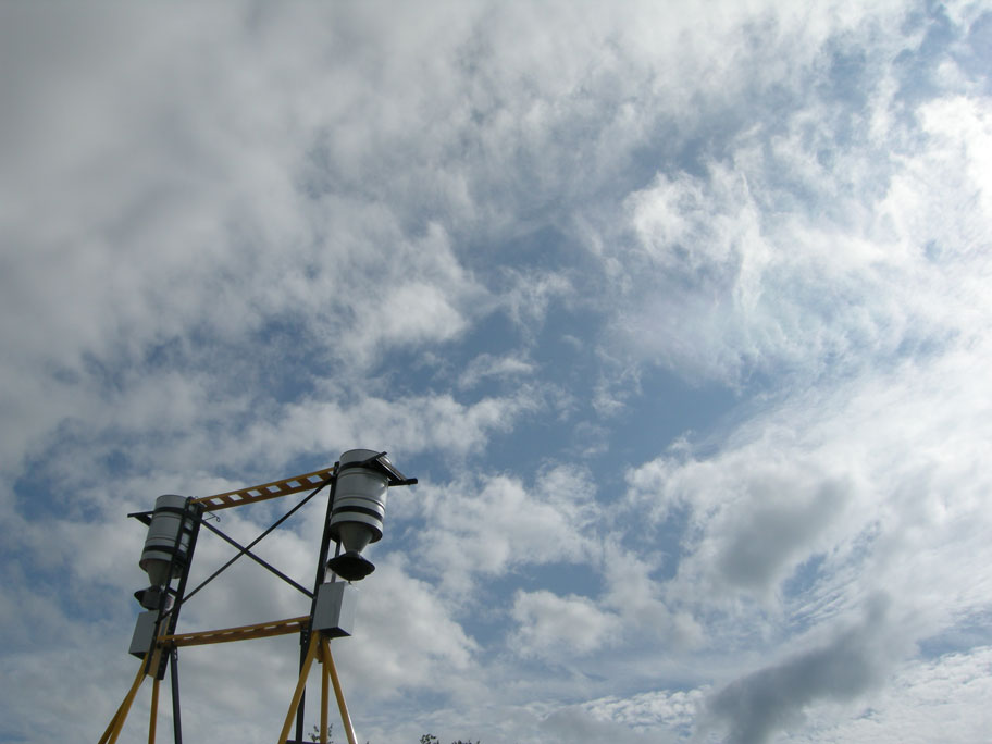 Bascule by CÉDULE 40 for the 10th Edition of the International Garden